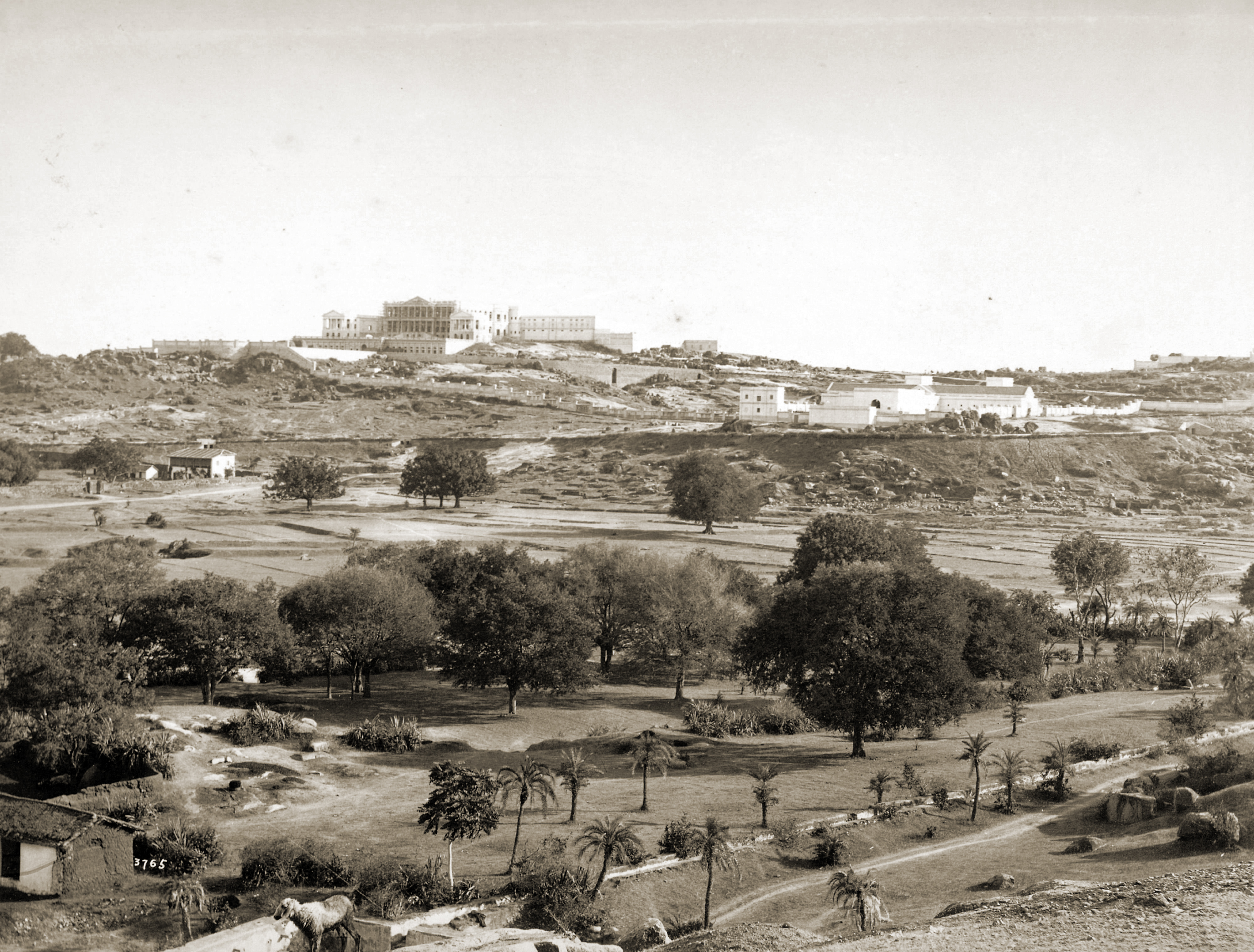 A view of the Falaknuma Palace, taken by Deen Dayal in the 1880s, from the Curzon Collection: 'Views of HH the Nizam's Dominions, Hyderabad, Deccan, 1892'. Falaknuma Palace, literally 'Mirror of the Sky', was designed in 1872 by an English architect as the private residence of a rich Muslim grandee. In 1897 the Nizam purchased it for use as a guest house. The main part of the building is classical in style with a two storey verandah carrying a central pediment. Another smaller building to the rear, which once housed the zenana, is designed in Indo-Saracenic style. The interior is opulent with an Italianate staircase and a fountain in the marble entrance hall, lined with portraits of British Governor-Generals. The future King George V and Queen Mary stayed here in 1906. This is a distant view of the palace from an opposite hillside.